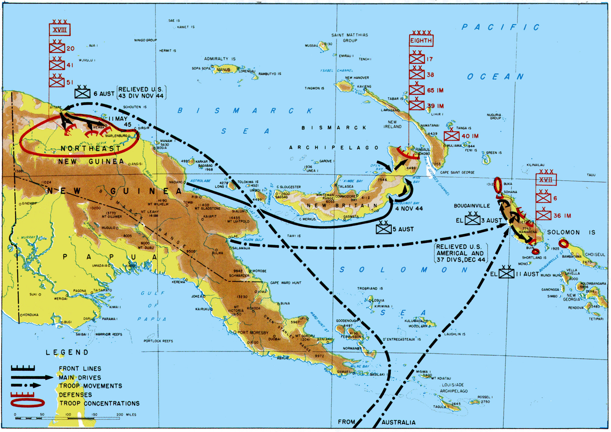 Plate No. 110 Mop-Up Operations in Eastern New Guinea, New Britain, and Bougainville